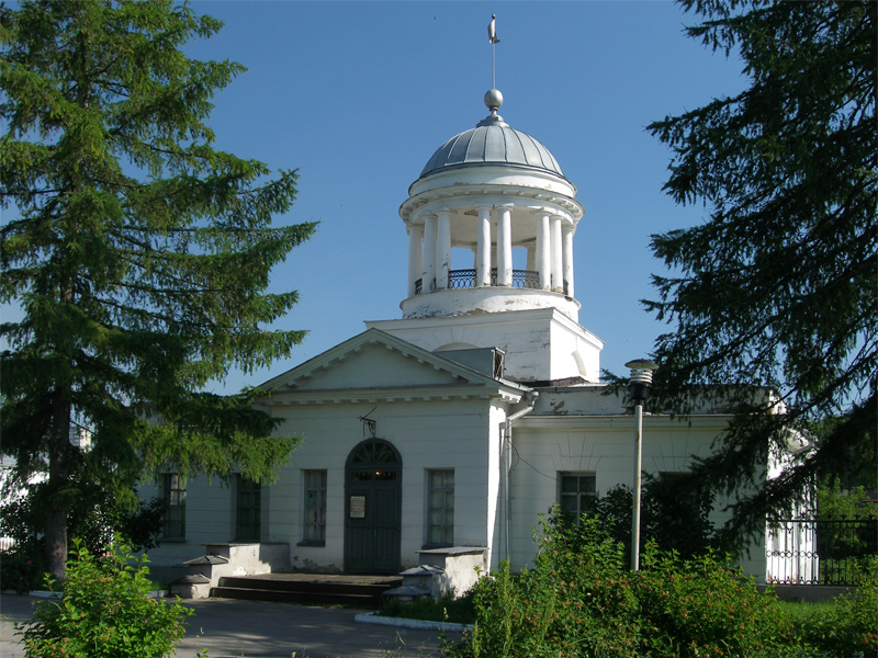 Bureau Kamensky plant in Kamensk-Uralsky, Sverdlovsk oblast, Russia